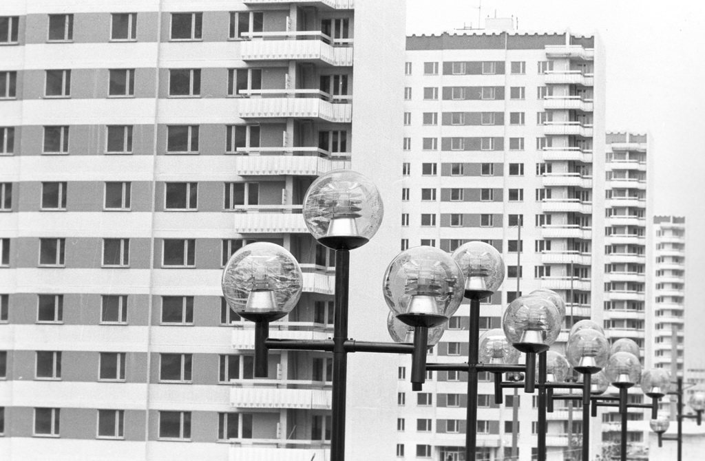 “Housing estate in Olympic village”. A housing estate in the Olympic village of the 22nd Summer Olympic Games (July 19 - August 3).